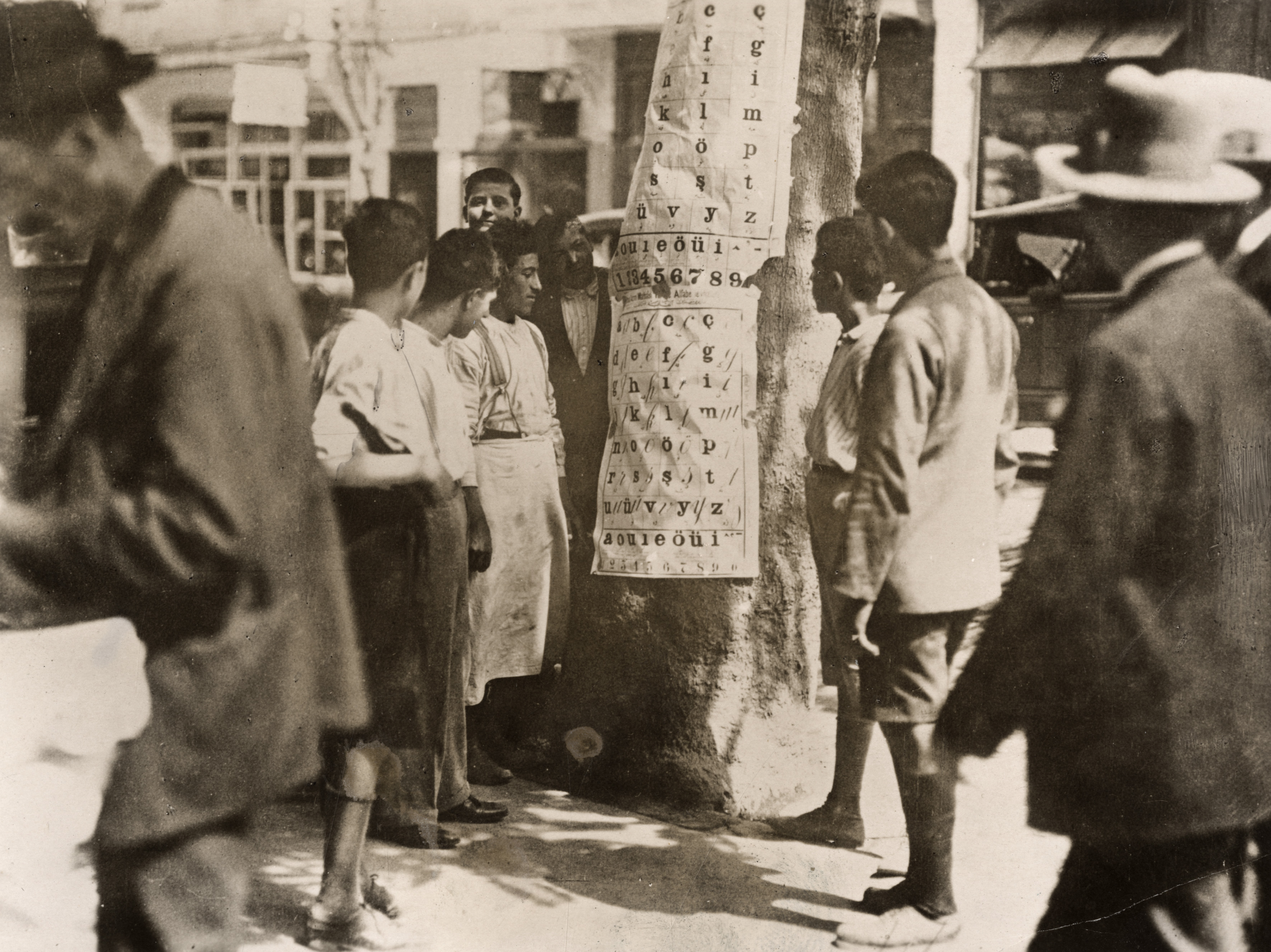 Nationaal Archief/Spaarnestad Photo/Het Leven